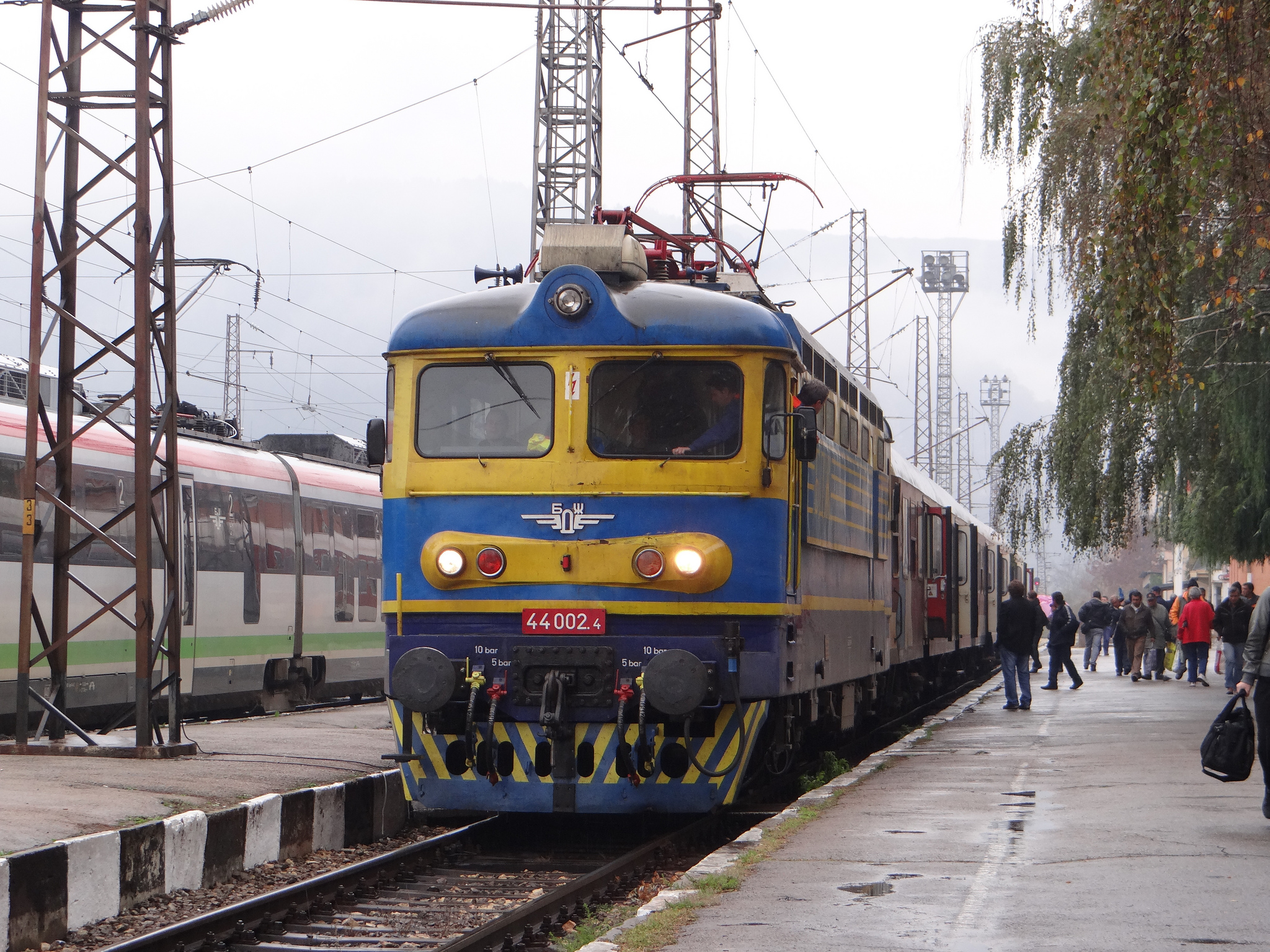 Locomotive 44 002.4 called "Banana" with fast train 5624 and EMU Desiro at Pernik railway station.